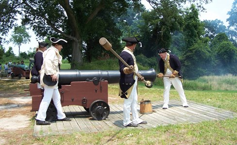 National Park Service photo shows an 18-pound cannon being "loaded" by American Revolutionary War re-enactors in a demonstration at Yorktown National Park. Location is possibly at Redoubt 9.